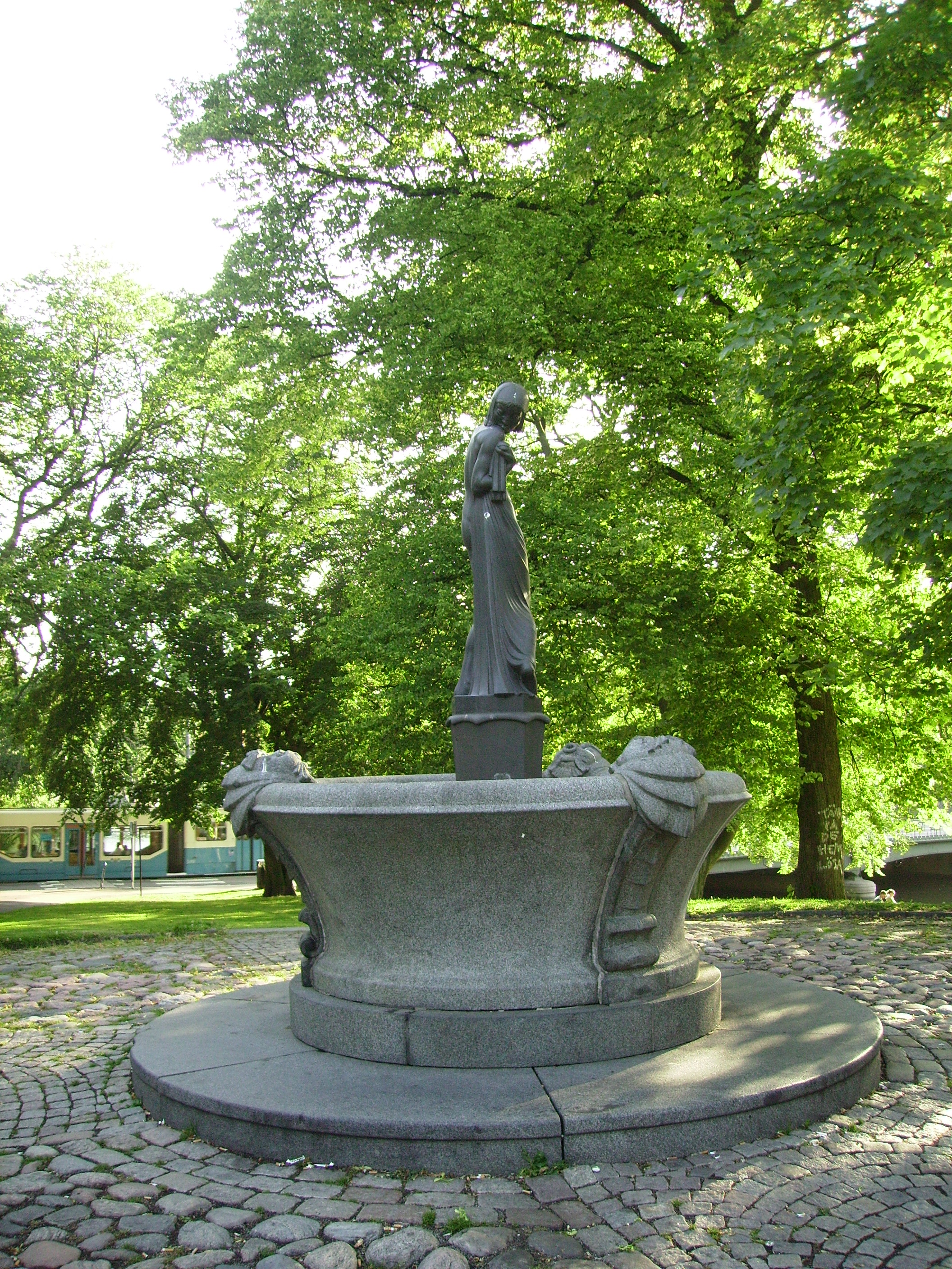 Picture of Skogsråfontänen in Gothenburg. Ivar Johnsson